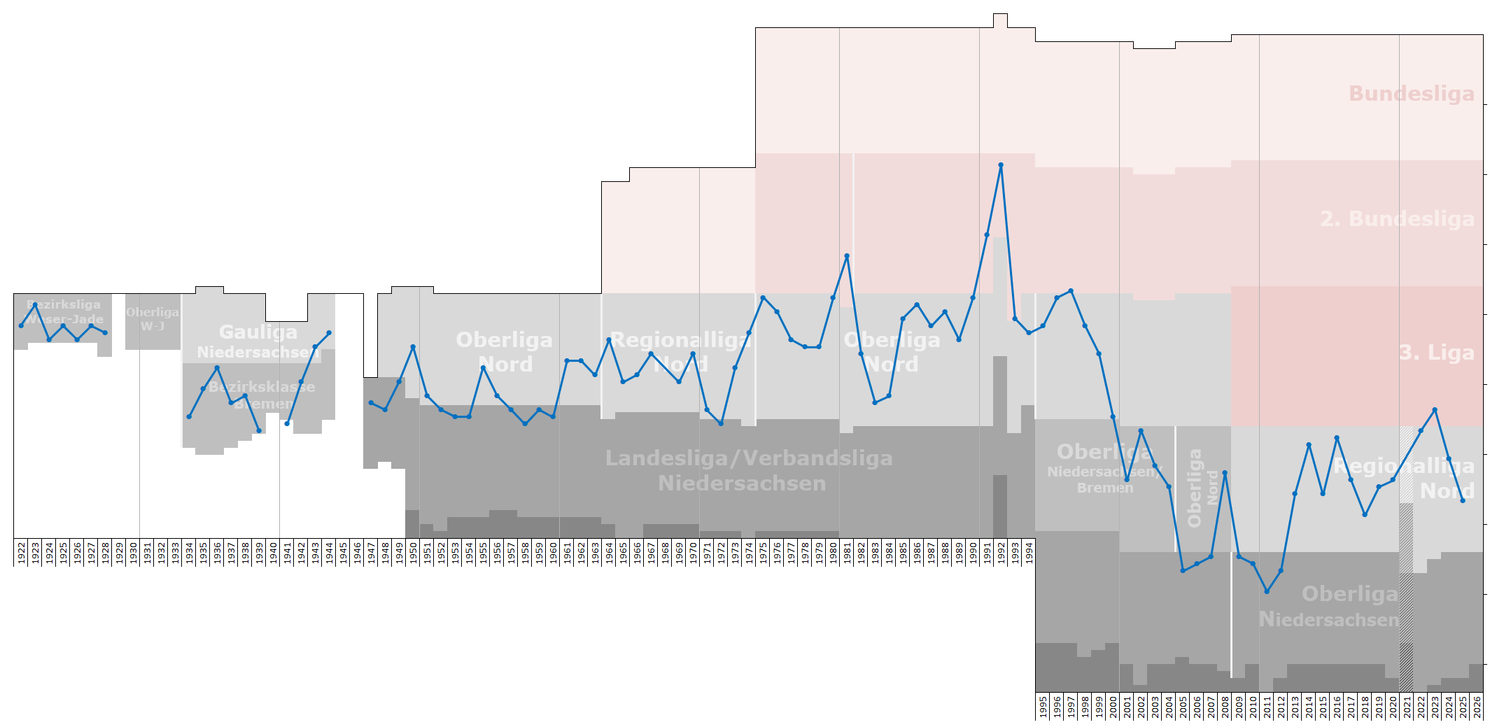 Chart of end-season table positions of VfB Oldenburg in the football league system of Germany. Data source: RSSSF, wikipedia, f-archiv.de, fussball.de